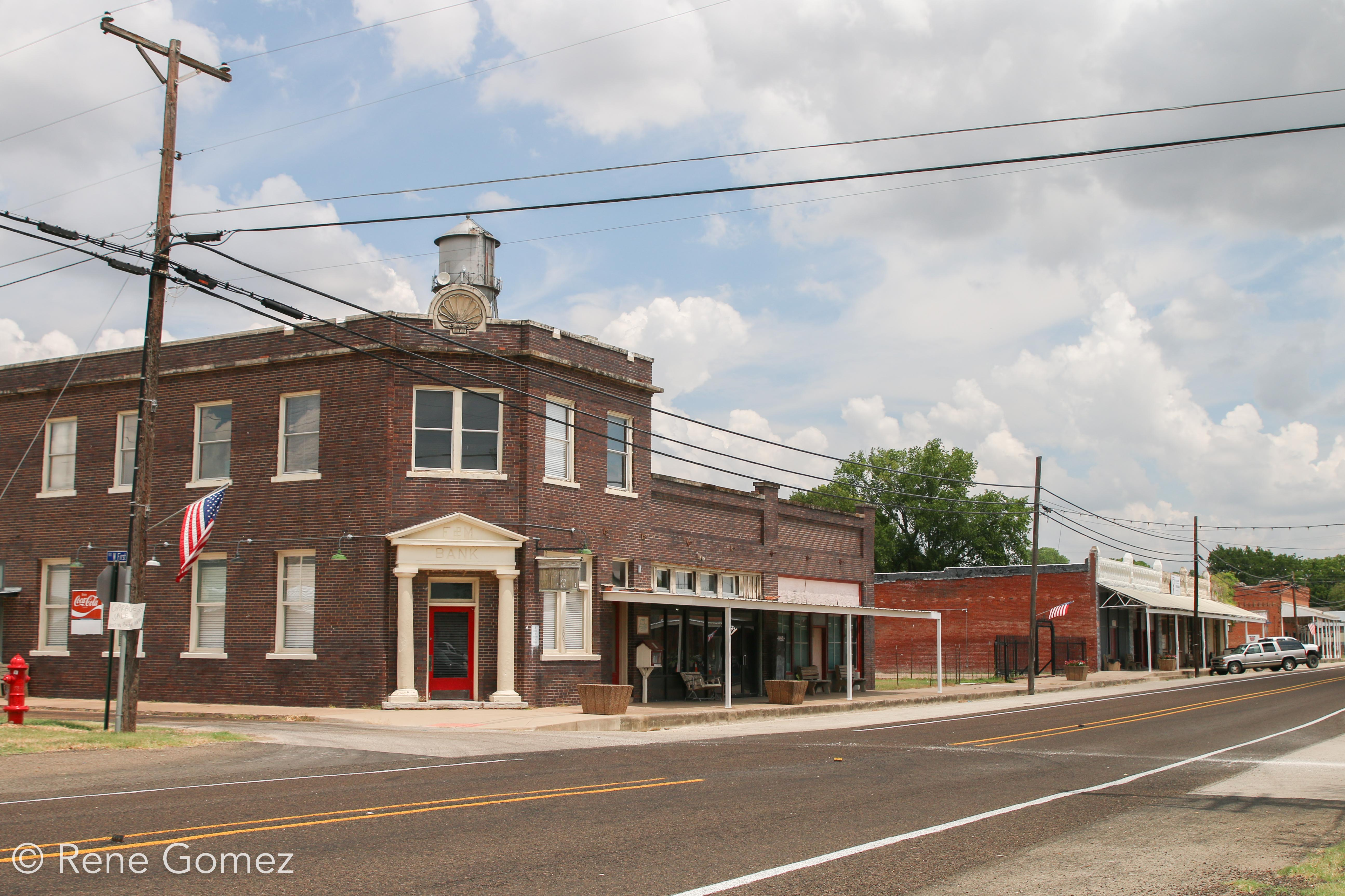 Downtown Maypearl, Texas